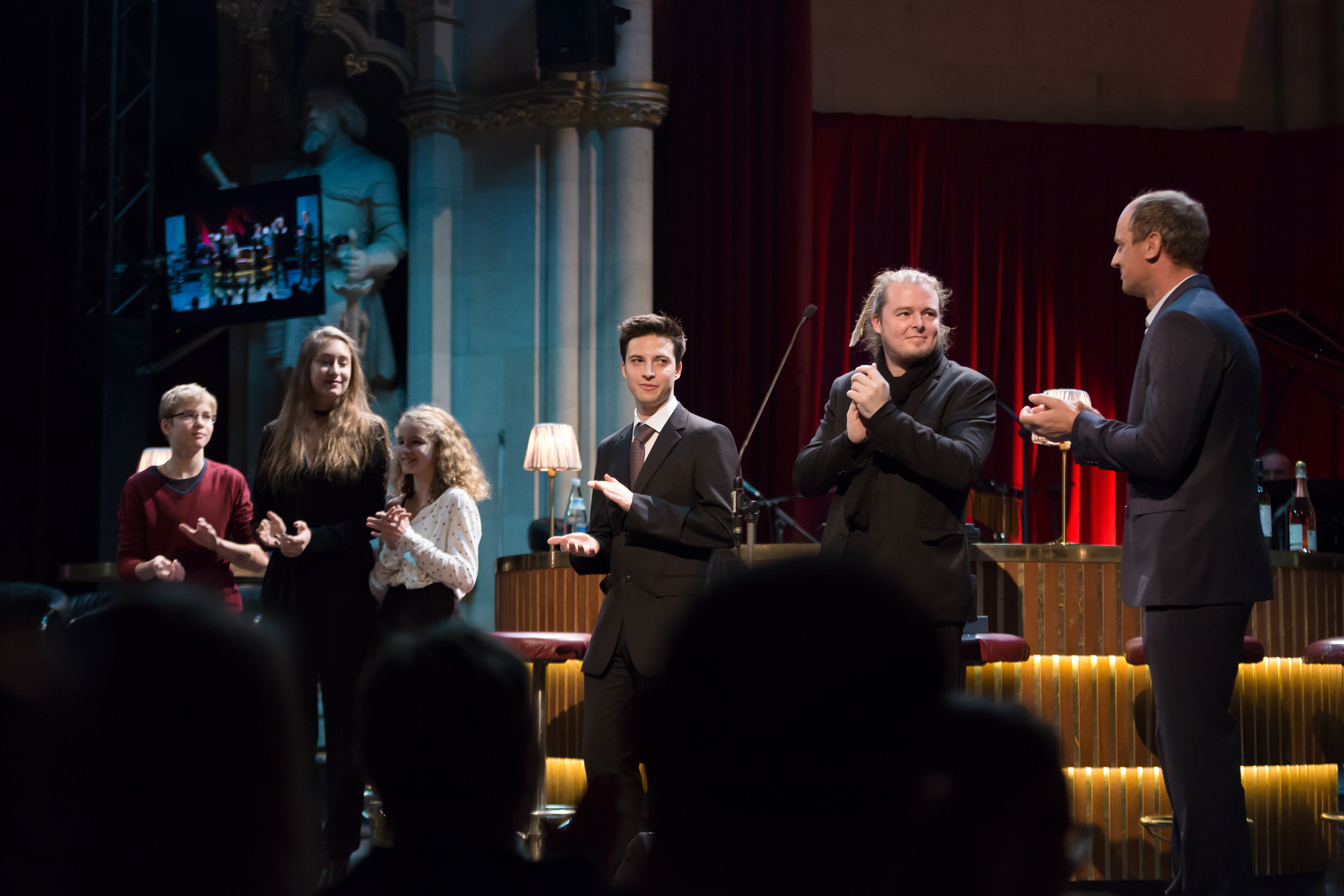 l.t.r.: Lino Gaier, Paula Brunner and Zita Gaier, actors in Maikäfer flieg, with the winners for best sound desgin Sebastian Watzinger, Thomas Pötz and Dietmar Zuson at the Austrian Film Awards 2017; Rathaus, Vienna, Austria.